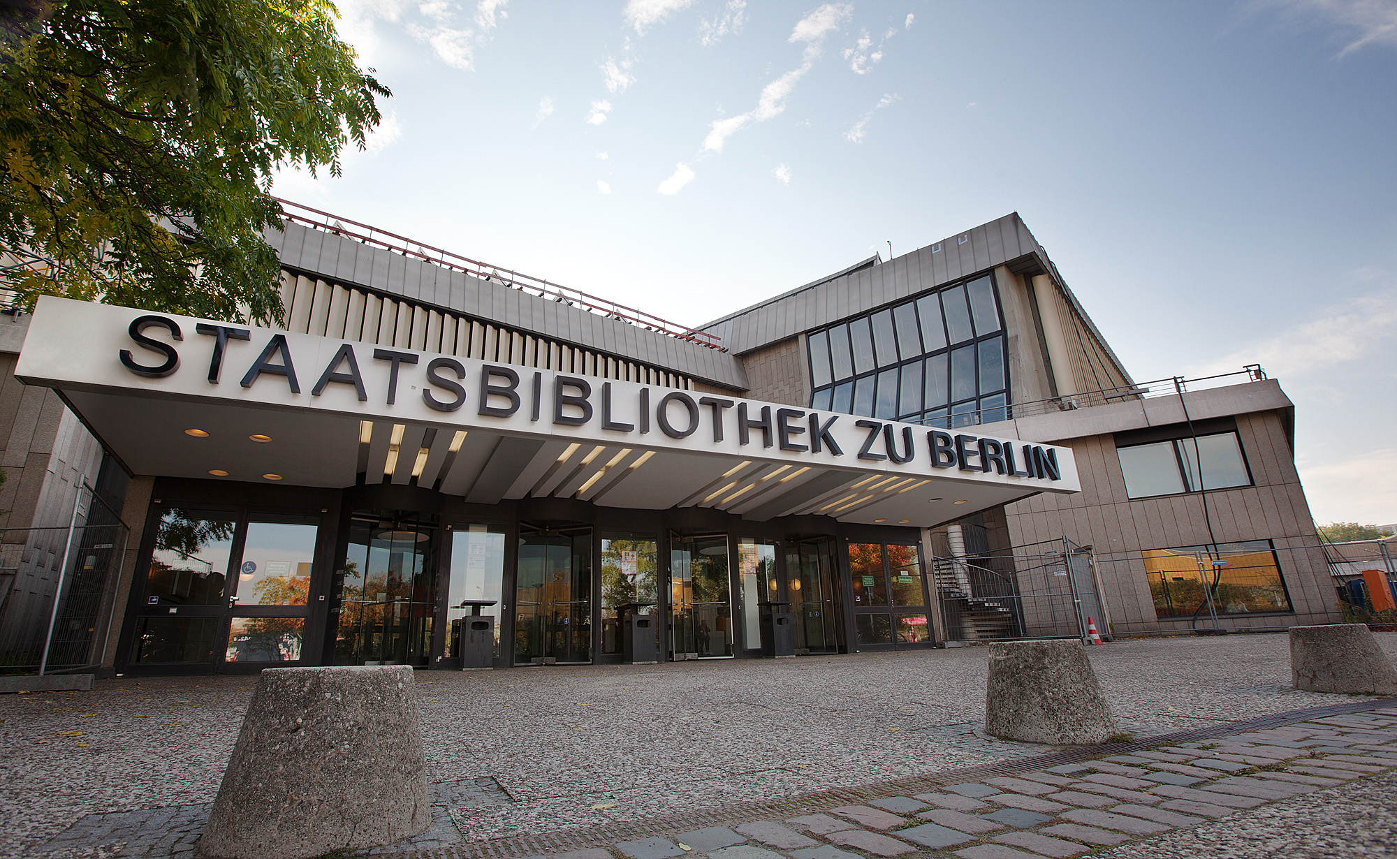 Entrance of the Staatsbibliothek zu Berlin, Building 2 (Potsdamer Strasse)